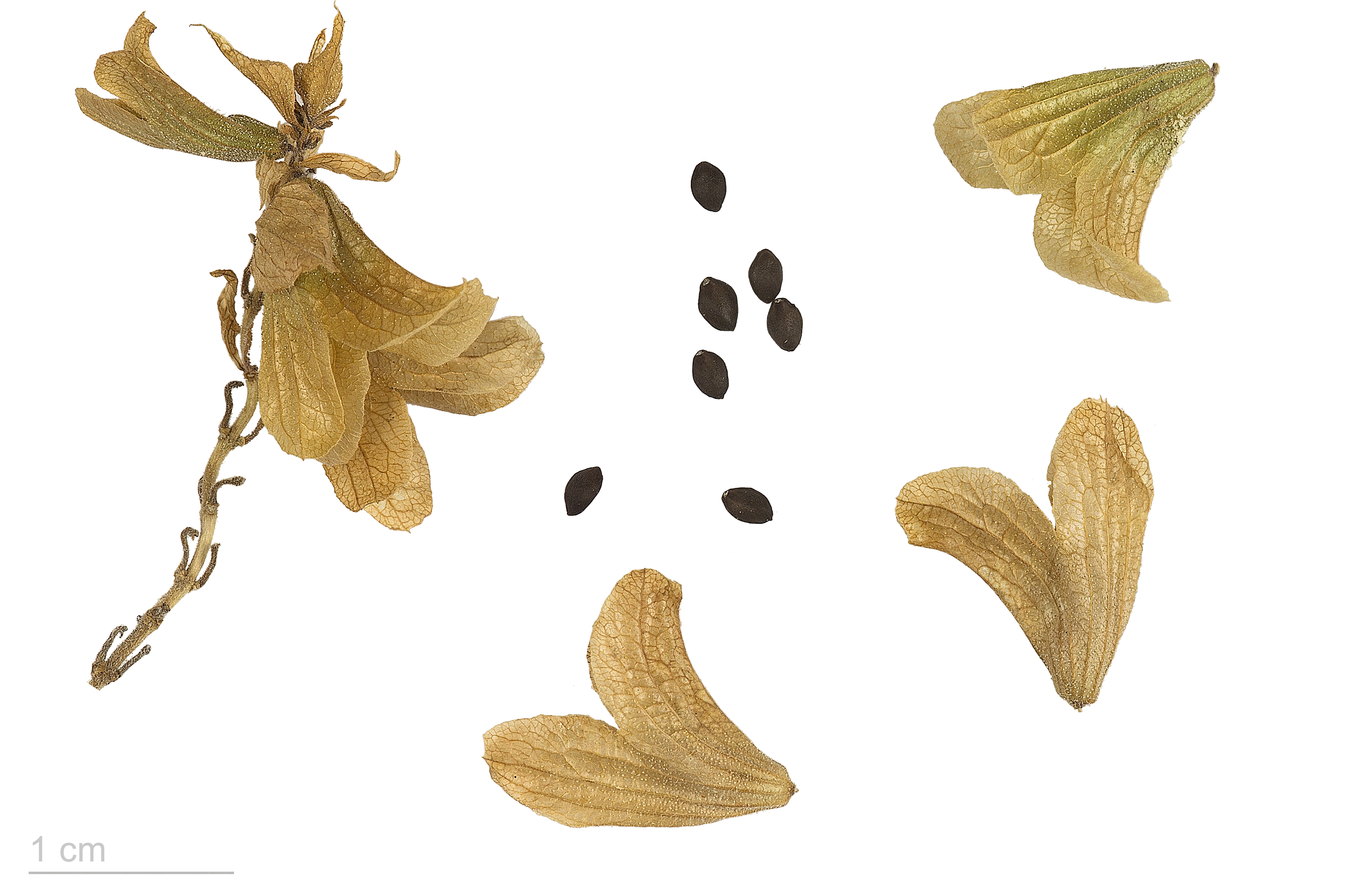 Salvia canariensis, Canary Island sage, seeds